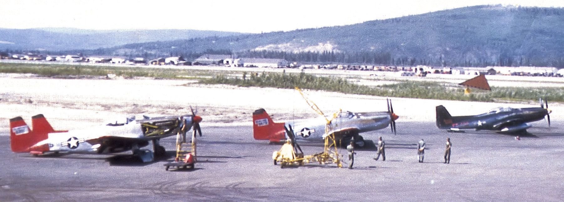 F-82 Twin Mustang at Ladd AFB, Alaska, about 1952